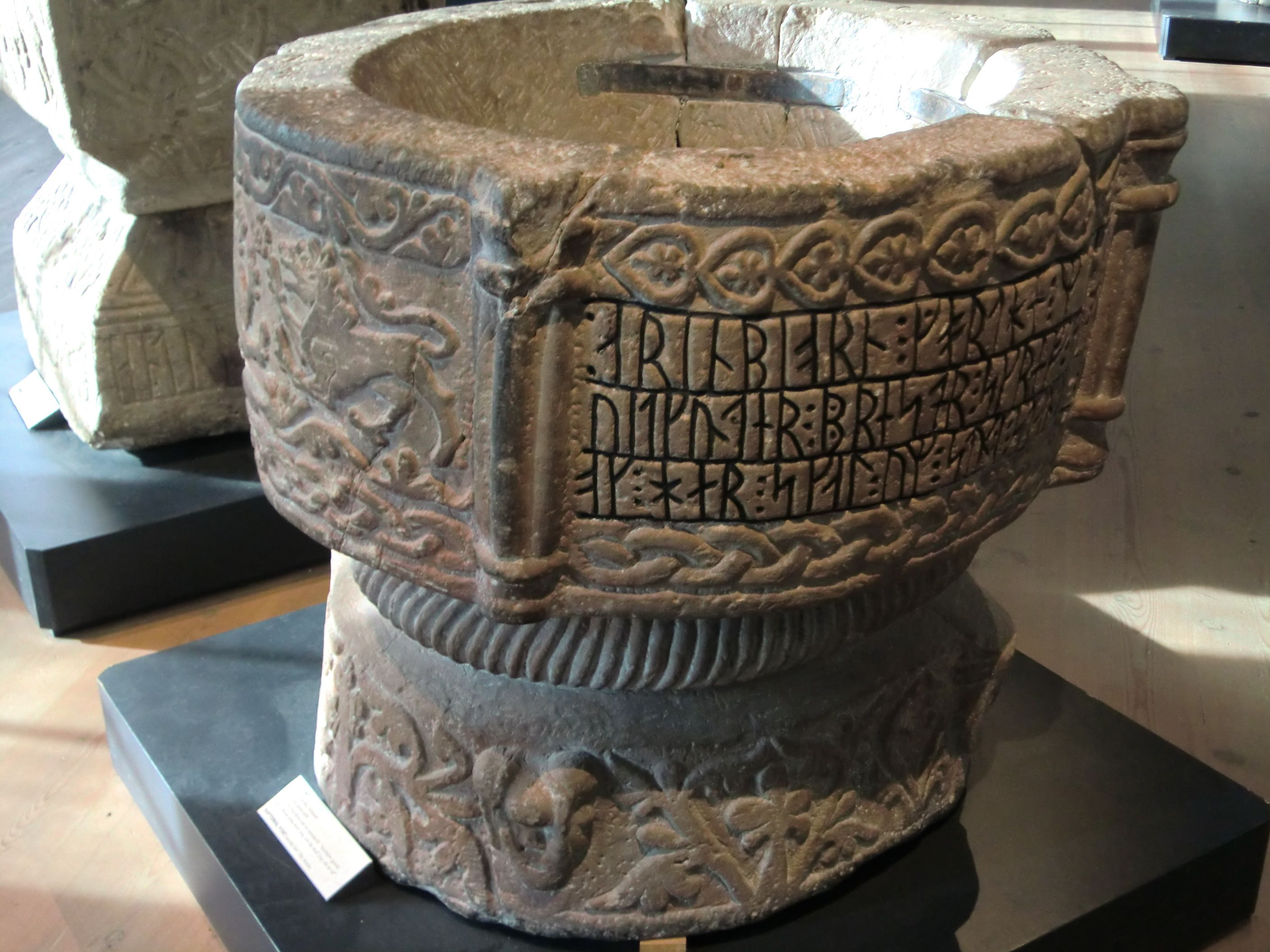 A 13th century baptismal font from Burseryd parish church in the western part of Småland, Sweden. On display at the National Historical Museum's Medieval Ecclesiastical Art exhibition in Stockholm. The Runic inscription can be approximately translated as: "Arnbjörn made me, Vidkun priest wrote me and here will I remain for a long time."